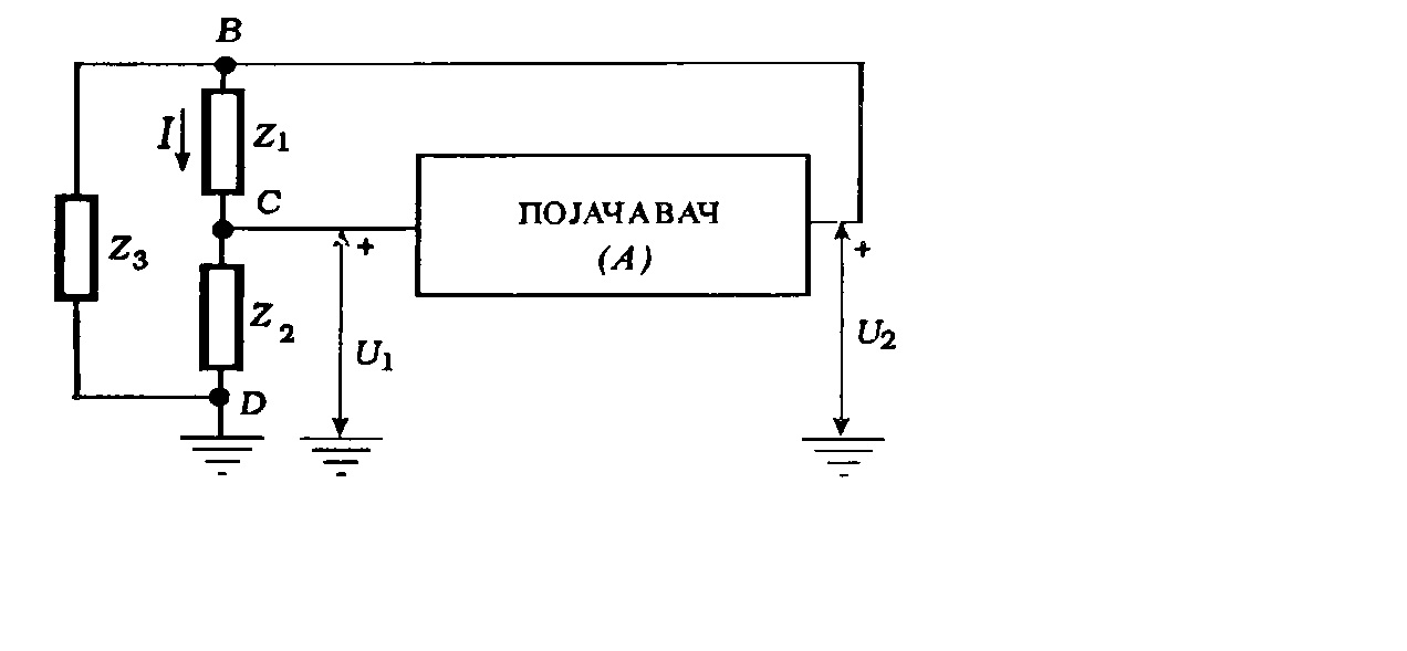 Electronic oscilator circuit